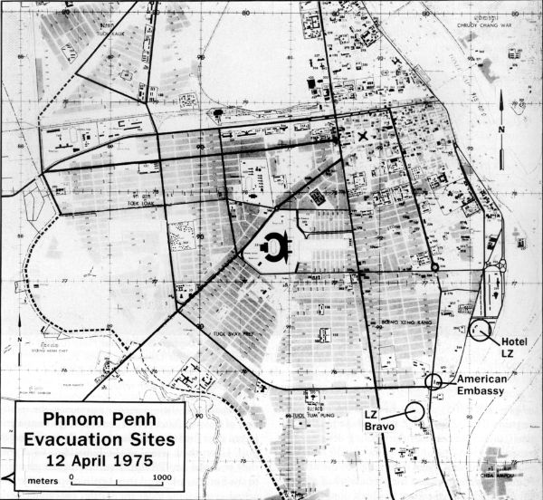 Map of possible helicopter landing zones for use in Operation Eagle Pull